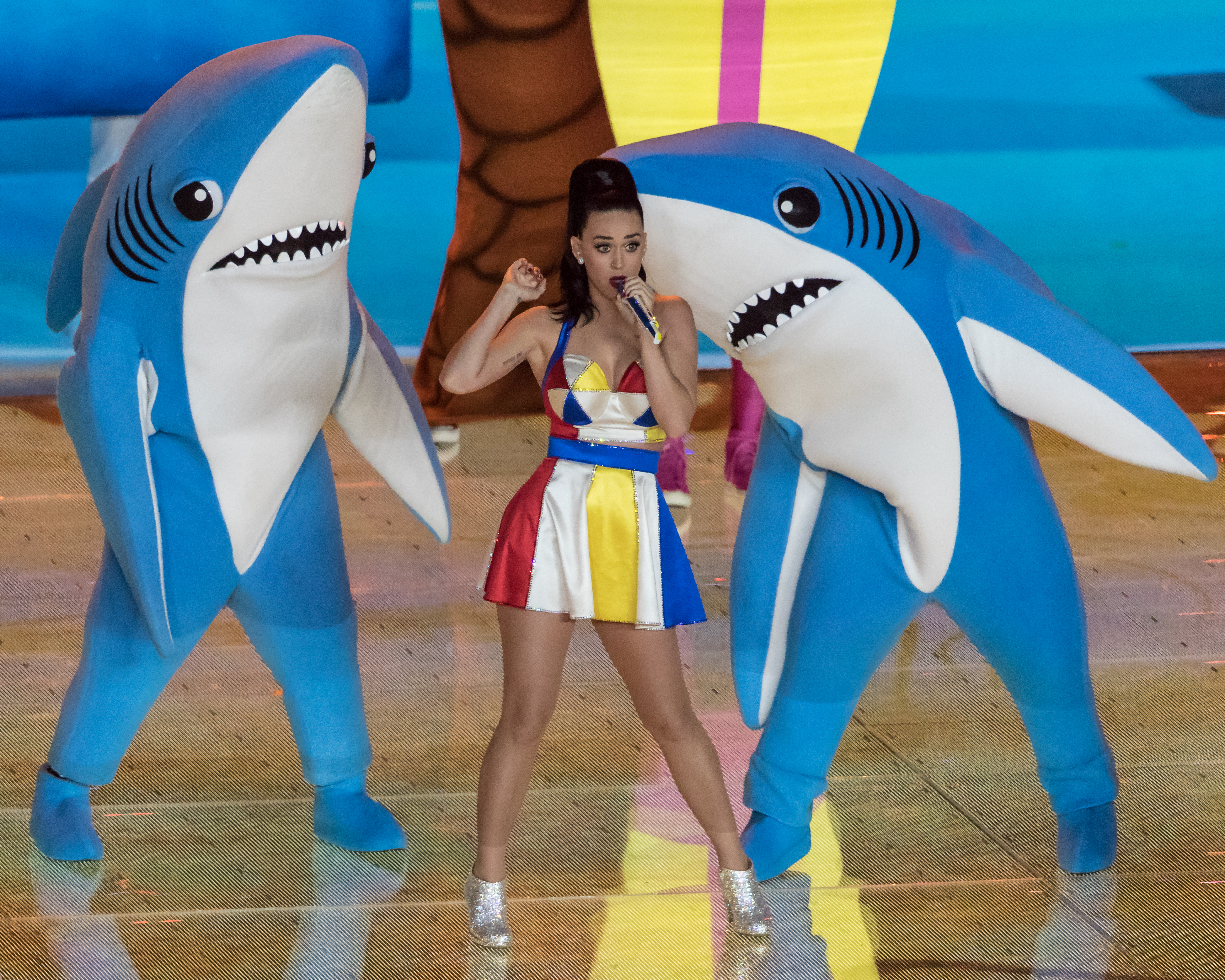 Katy Perry performing "Teenage Dream" at halftime of Super Bowl XLIX at University of Phoenix Stadium in Glendale, Ariz., on Feb. 1, 2015.